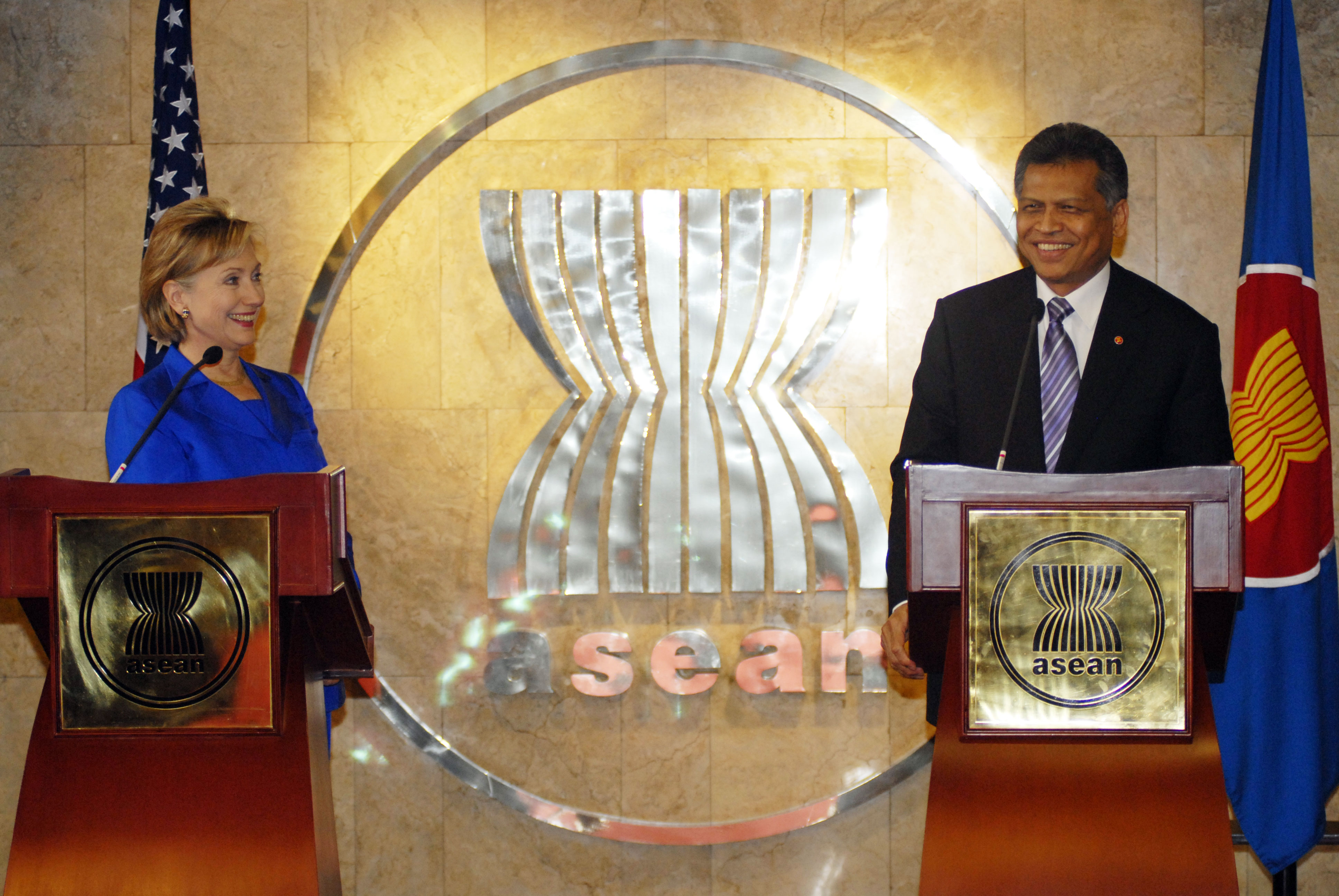 Secretary Clinton with ASEAN Secretary General, Dr. Surin Pitsuwan in Jakarta, Indonesia February 19, 2009.